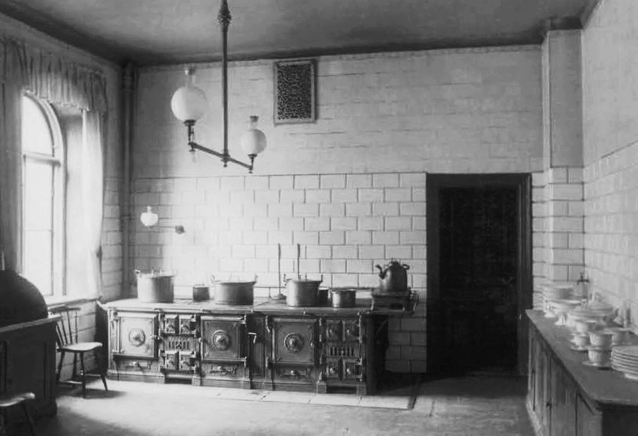 Oscars minne on Björngårdsgatan